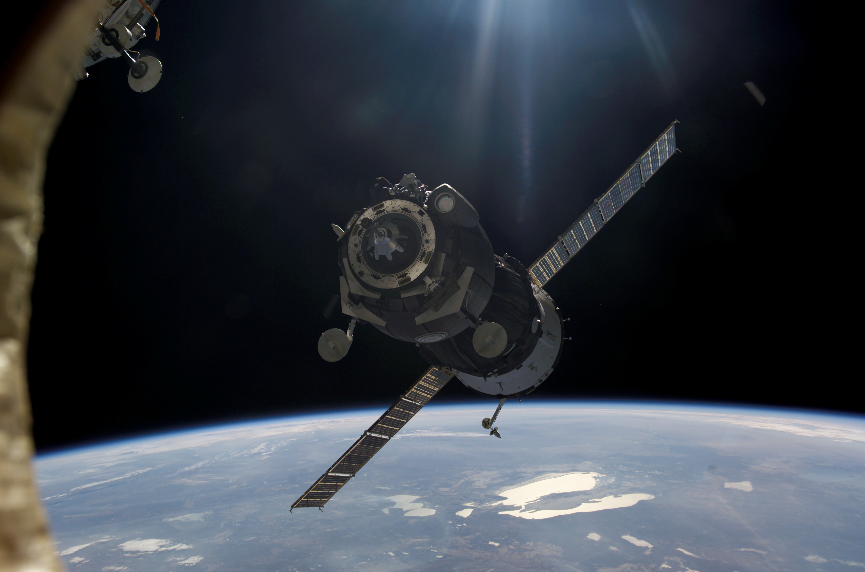 Carrying the ISS Expedition 12 crew, Soyuz TMA-7, launched a few days earlier from the Baikinour Cosmodrome, approaches the International Space Station. The Aral Sea is clearly visible in the background. Backdropped by the blackness of space and Earth’s horizon, the Soyuz TMA-7 spacecraft approaches the international space station. Onboard the spacecraft are astronaut William S. McArthur, Jr., Expedition 12 commander and NASA science officer; cosmonaut Valery I. Tokarev, Expedition 12 flight engineer and Soyuz commander; and U. S. Spaceflight Participant Gregory Olsen. The Soyuz linked up to the Pirs Docking Compartment at 12:27 a.m. (CDT) on Oct. 3, 2005 as the two spacecraft flew over eastern Asia. The docking followed Friday’s launch from Baikonur Cosmodrome in Kazakhstan.